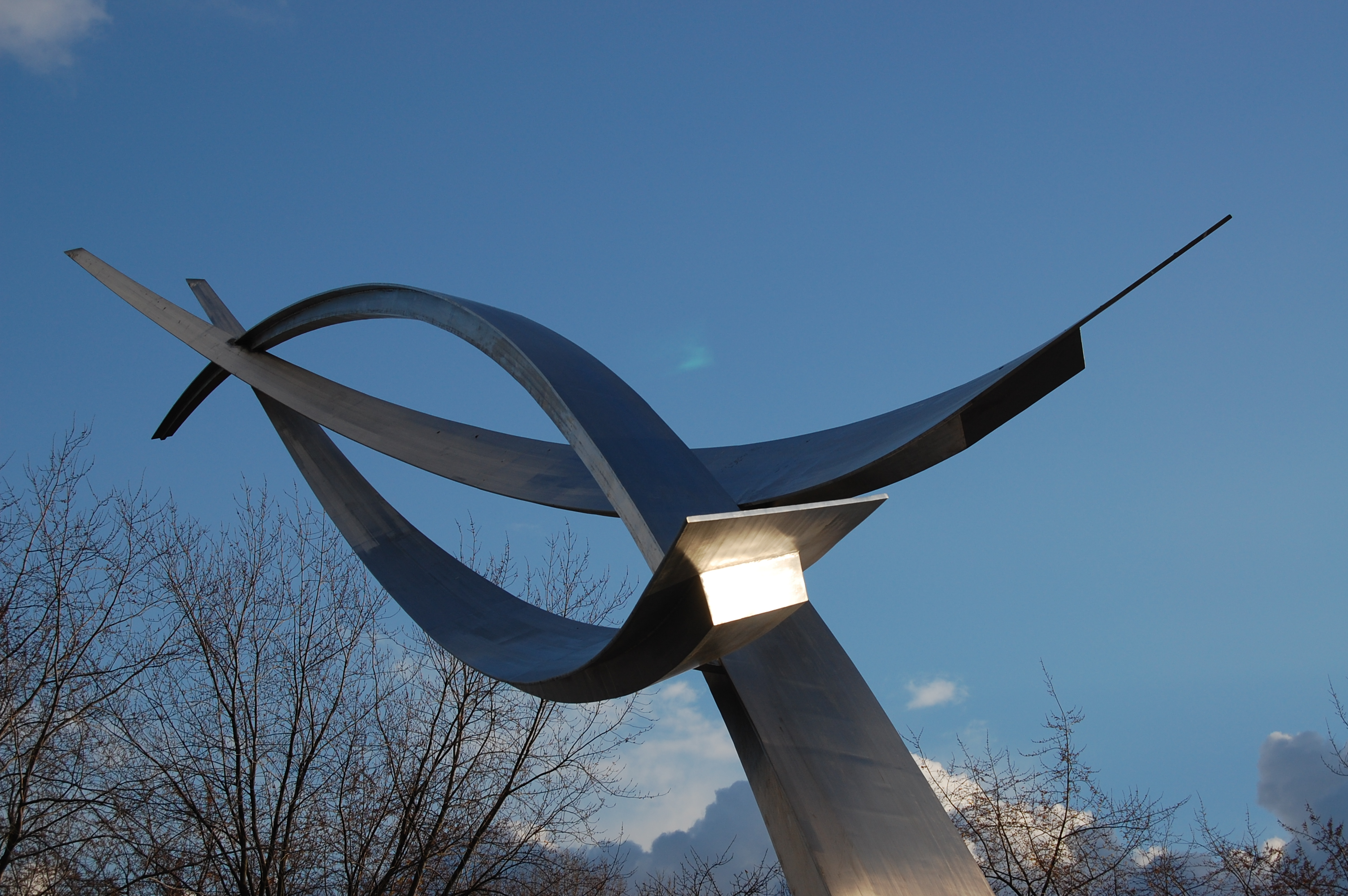 Polish airmans monument in Warsaw.